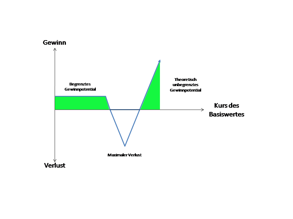 Back Spread Call